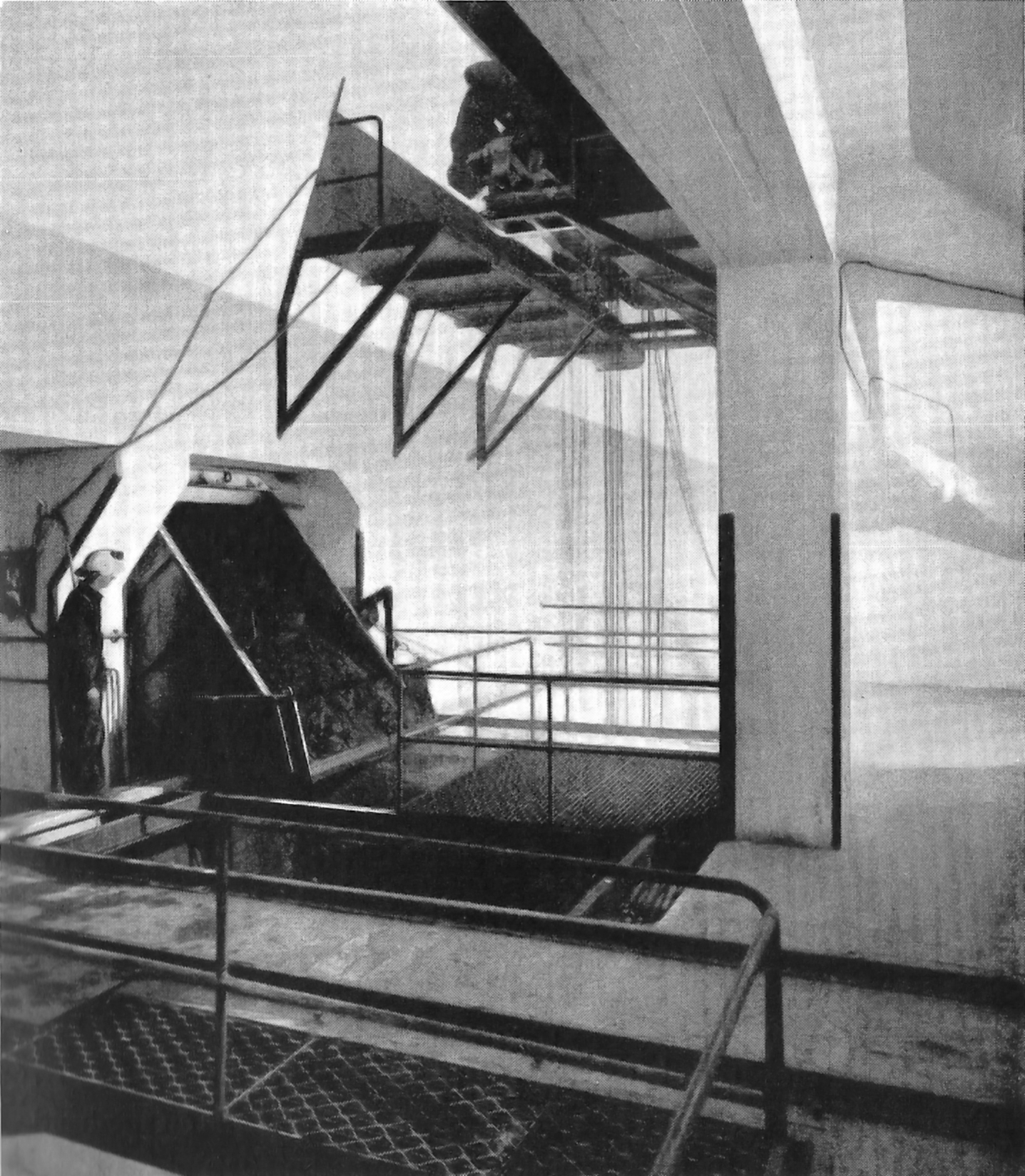 Ore crushing at 350 m depth in Vingesbacke iron mine, probably 1956